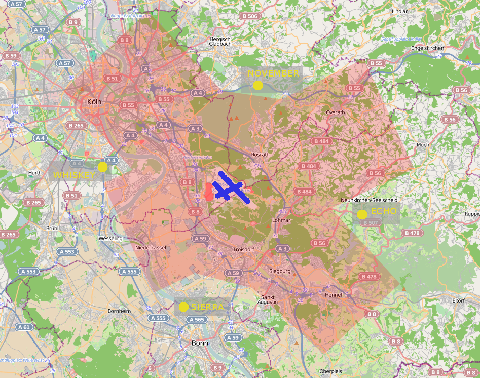 Control zone of Cologne Airport, Germany